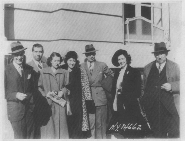 Opposite the entrance of the Excelsior hotel in Naples (1949). (From left to right)Certo Sorci; Salvatore Lucania; Igea Lissoni; Signora Scalici; Francesco Scalici; Signora Di Bella; Di Bella.